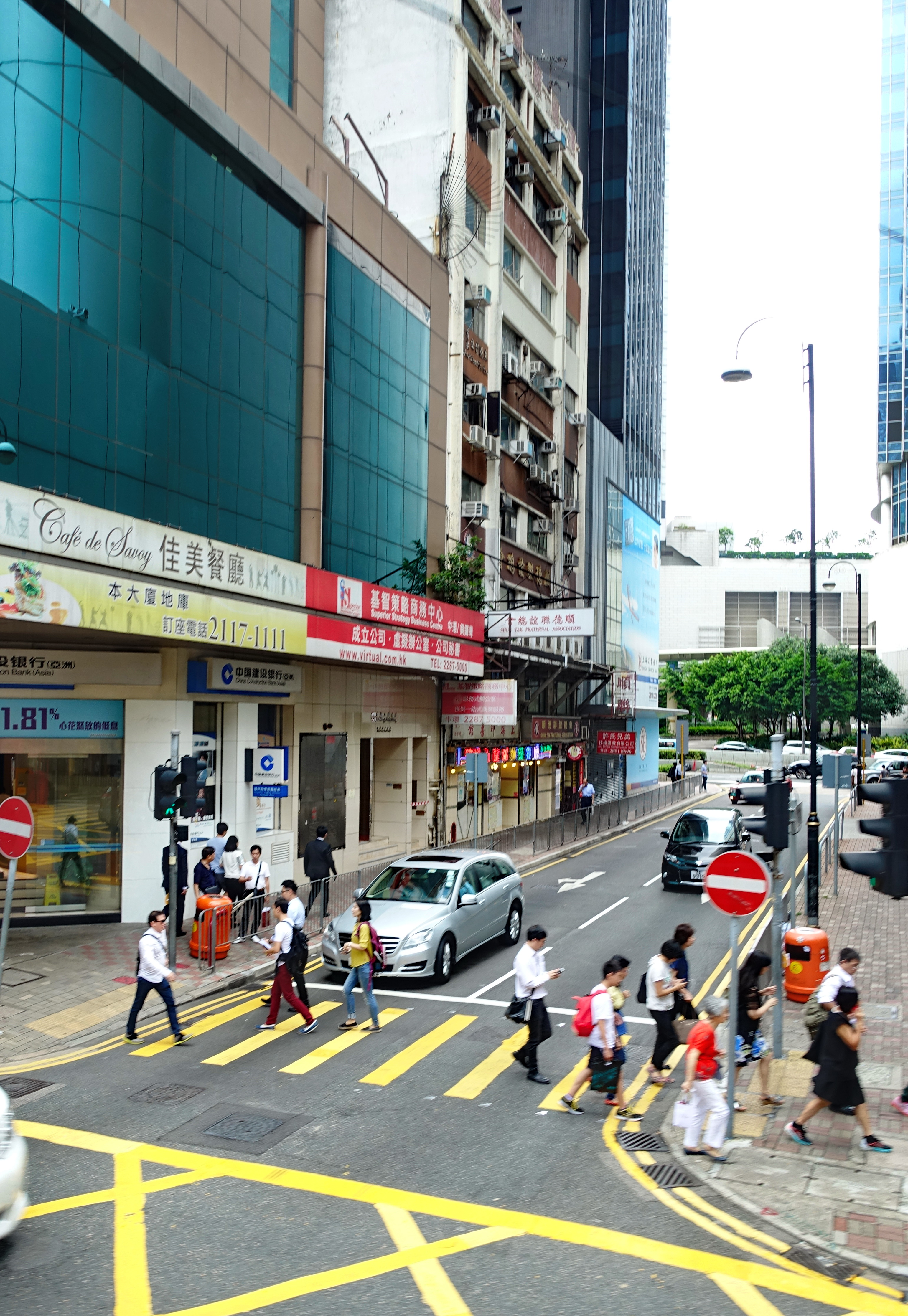 Jubilee Street near Des Voeux Road Central, Hong Kong.